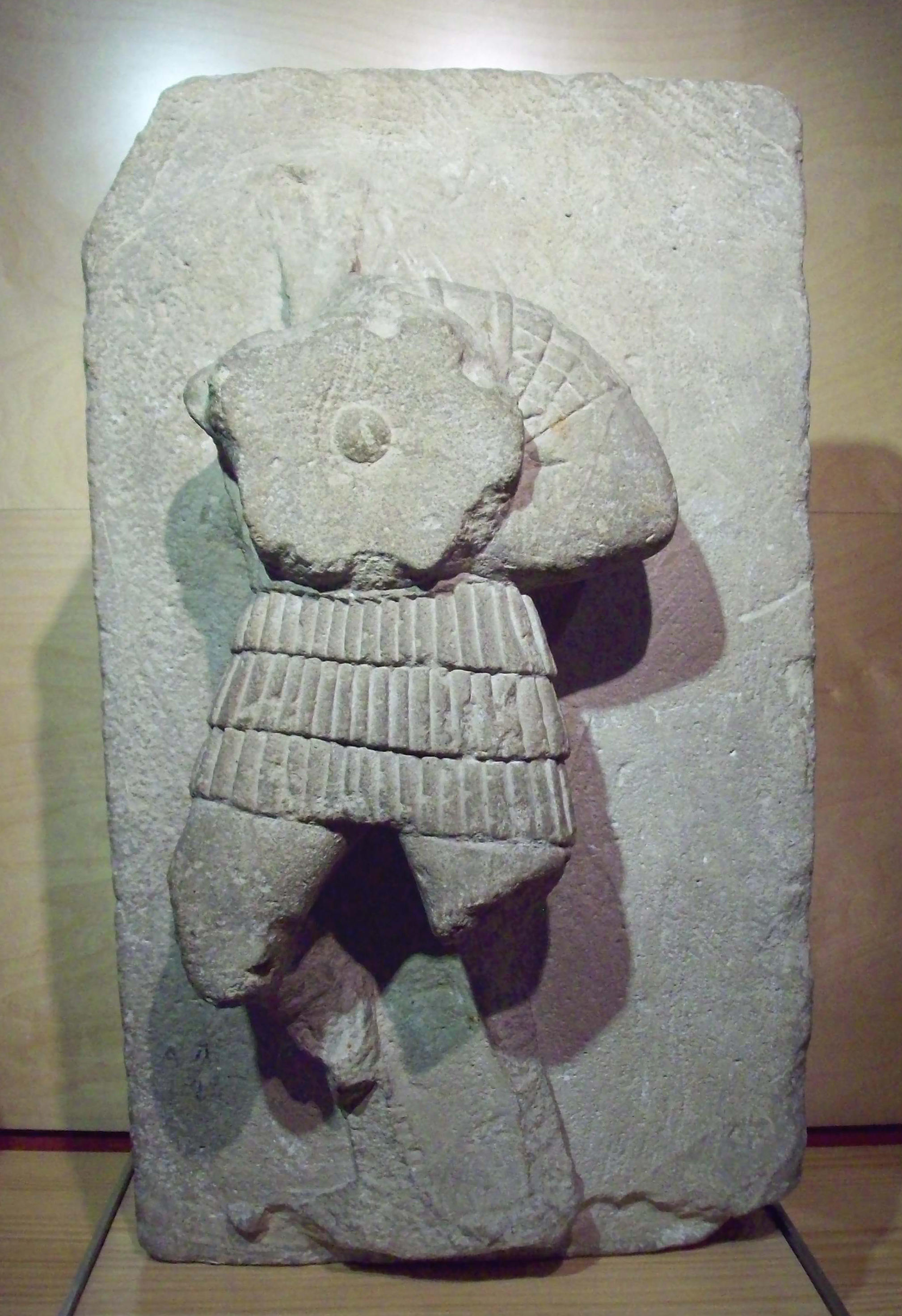 An Iberian high-relief representing a warrior wearing a short tunic and holding up a round shield (caetra). This piece is part of the Group B of the Sculptures of Osuna.